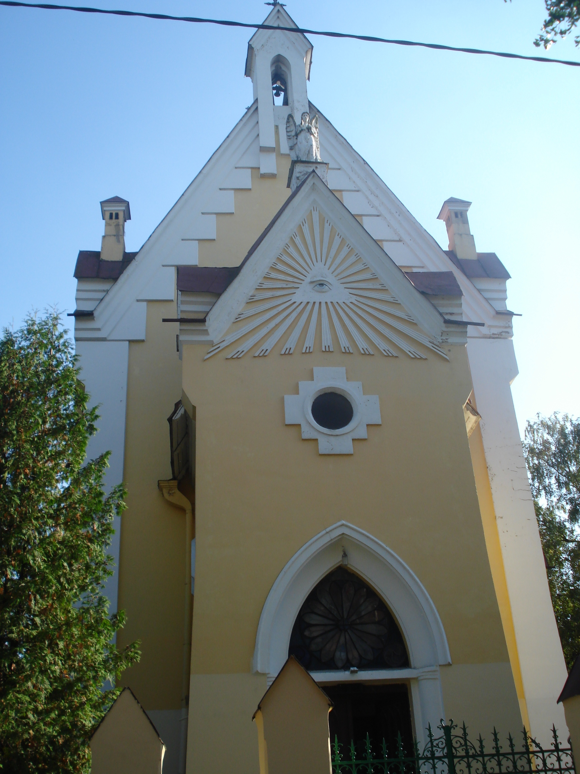 Church of the Providence of God in Vilnius (Костёл Божия Провидения; Dievo Apvaizdos bažnyčia, Gerosios Vilties g. 17). Main facade